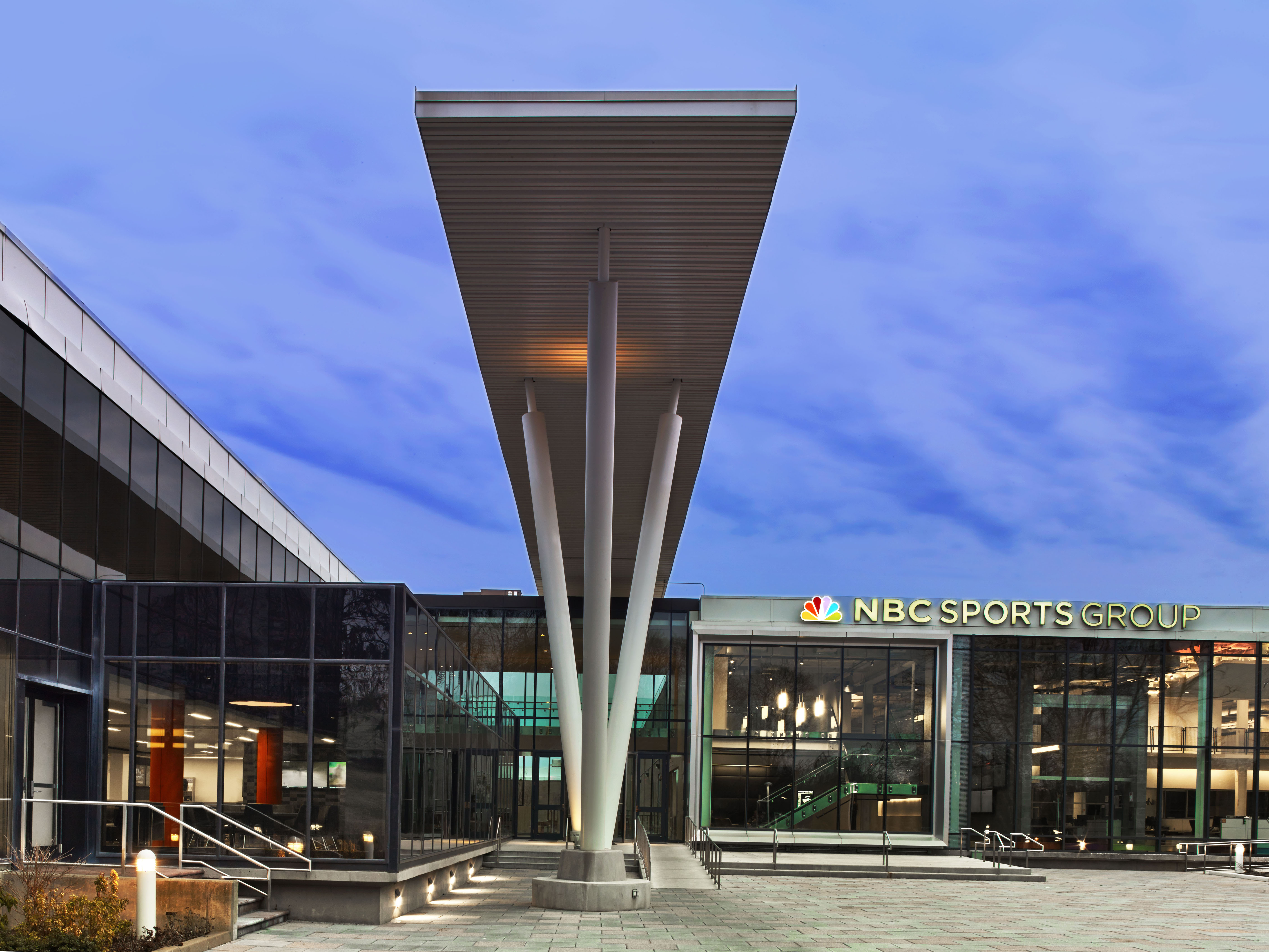 NBC Sports Group's world headquarters at 1 Blachley Road in Stamford, Connecticut The building is also home to the only Chelsea Piers location outside of New York City.